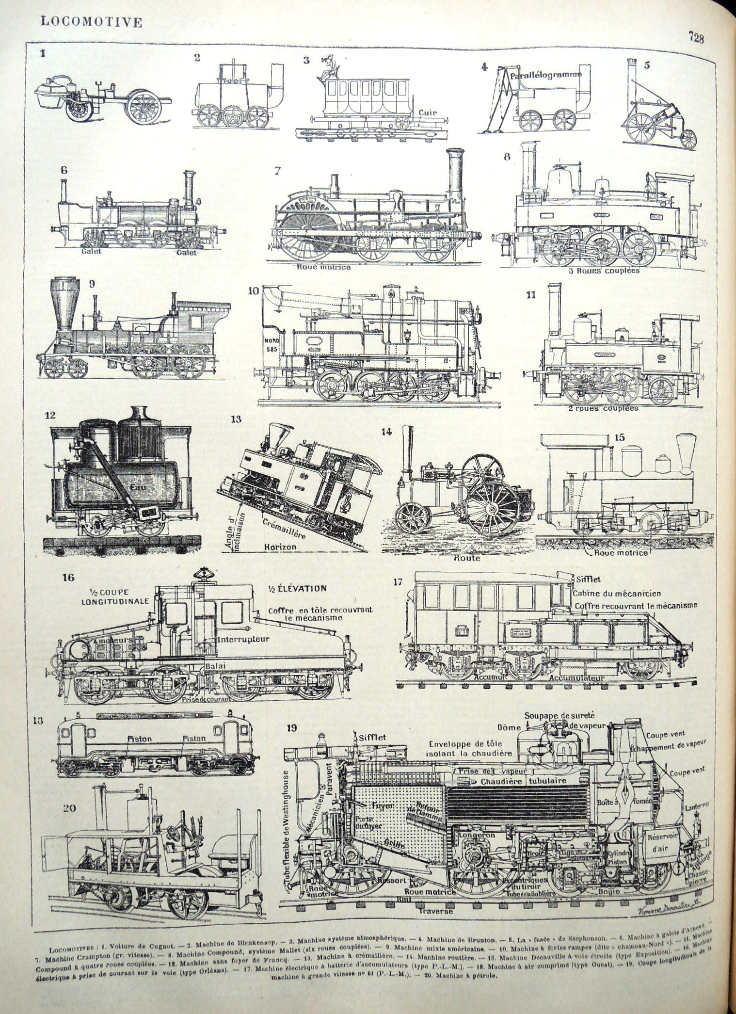 19th Century auto-movers